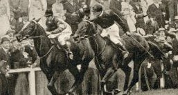 Finish of 1903 Eclipse Stakes. Ard Patrick beats Sceptre. Contemporary photograph. Considerable re-touching.